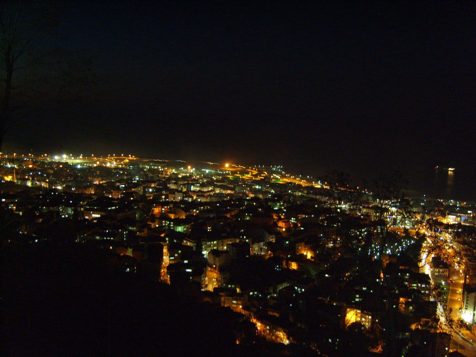 Trabzon at night